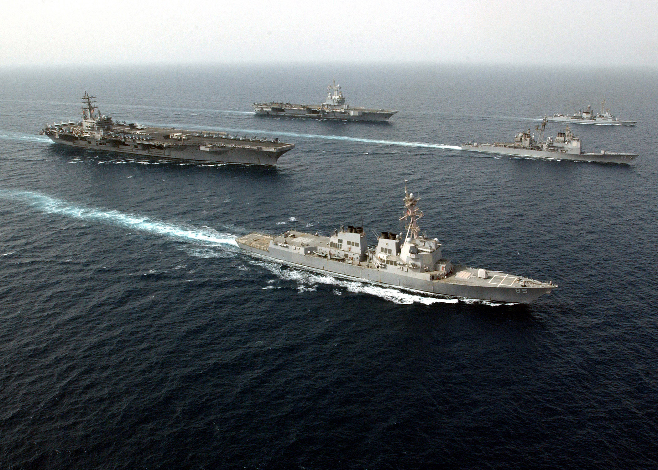 Persian Gulf - The Nimitz-class aircraft carrier USS Ronald Reagan (CVN 76), French nuclear powered surface vessel FS Charles De Gaulle (R-92), Cassard-class destroyer FS Cassard (D-614), guided missile cruiser USS Vicksburg (CG 69), and the guided-missile destroyer USS McCampbell (DDG 85) conduct joint operations in the Persian Gulf during a passing exercise (PASSEX). The U.S. and France are part of the coalition effort currently conducting Maritime Security Operations (MSO) in the region.